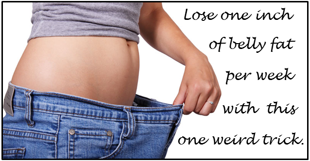 Example of a one weird trick ad.